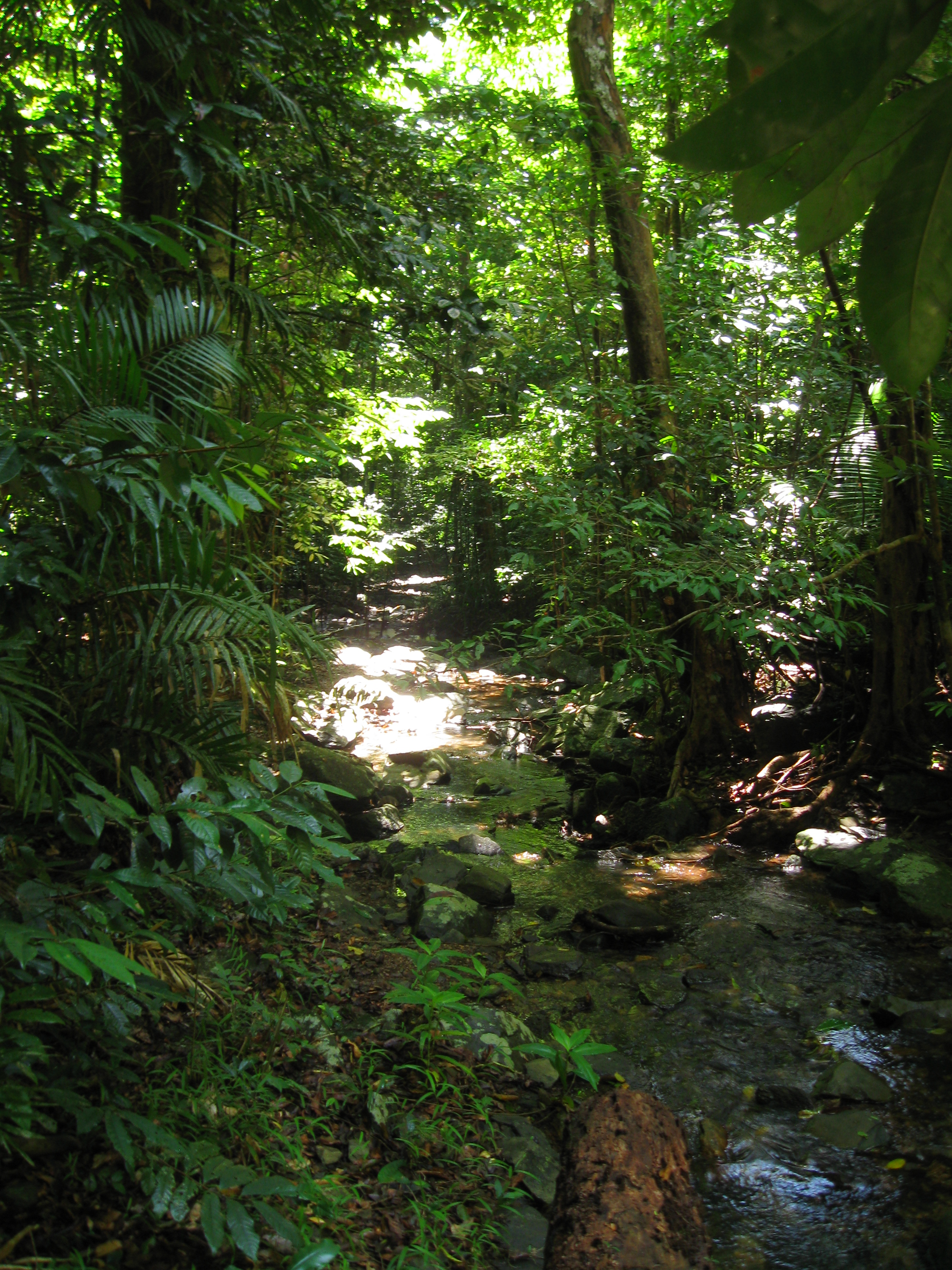 Daintree Rainforest, Queensland, Australia